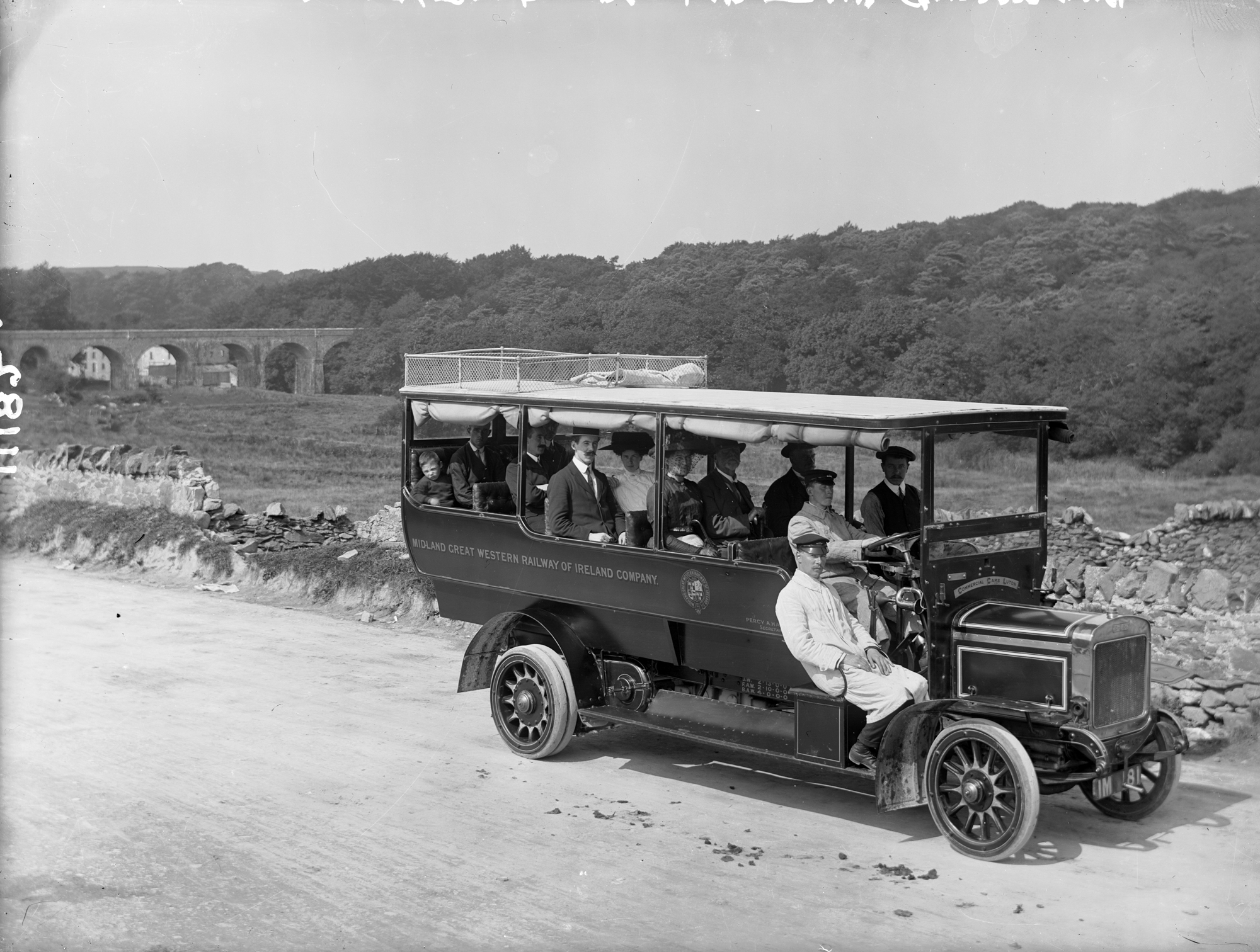 We've seen this vehicle IM 181 at Leenane before, or at least its sister vehicle IM 180. It's supposed to be near Westport, Co. Mayo. Can any of you place this viaduct? Can make out "Percy A. Ha..., Secretary" just behind the chap riding shotgun (who is, I'm fairly sure, wearing a silver Claddagh ring on the pinkie finger of his right hand). What do these mean? To do with weight? Tyre pressure? U.W. 2-13-0-0 F.A.W. 2-10-0-0 B.A.W. 4-0-0-0 Date: After 1906 (Commercial Car factory opened at Luton) NLI Ref.: L_ROY_11182